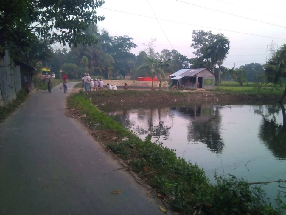 A modern village of Bangladesh. Located on Comilla District under Chauddargram Upazila. This is a large Village in the Union of Alakara. The communication is pretty good due to beside of Dhaka-Chittagong highway. The village has a primary school, community clinics, including Mosque, Madrasas and tourist attractions.